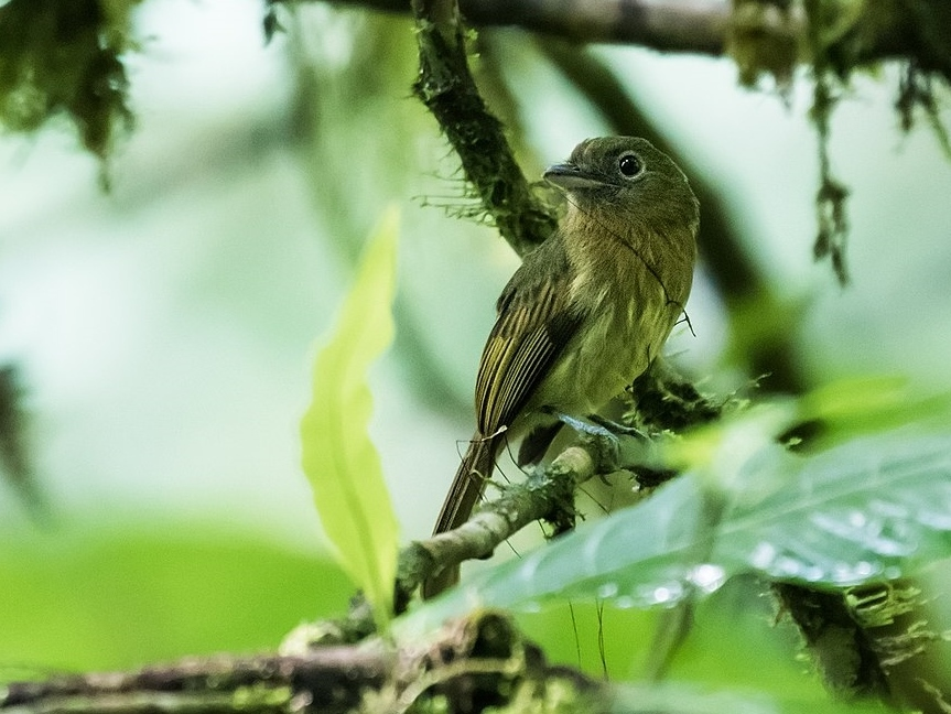 Fulvous-breasted Flatbill from Tatamá National Park, Risaralda, Colombia.